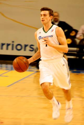 David Stockton of Reno Bighorns